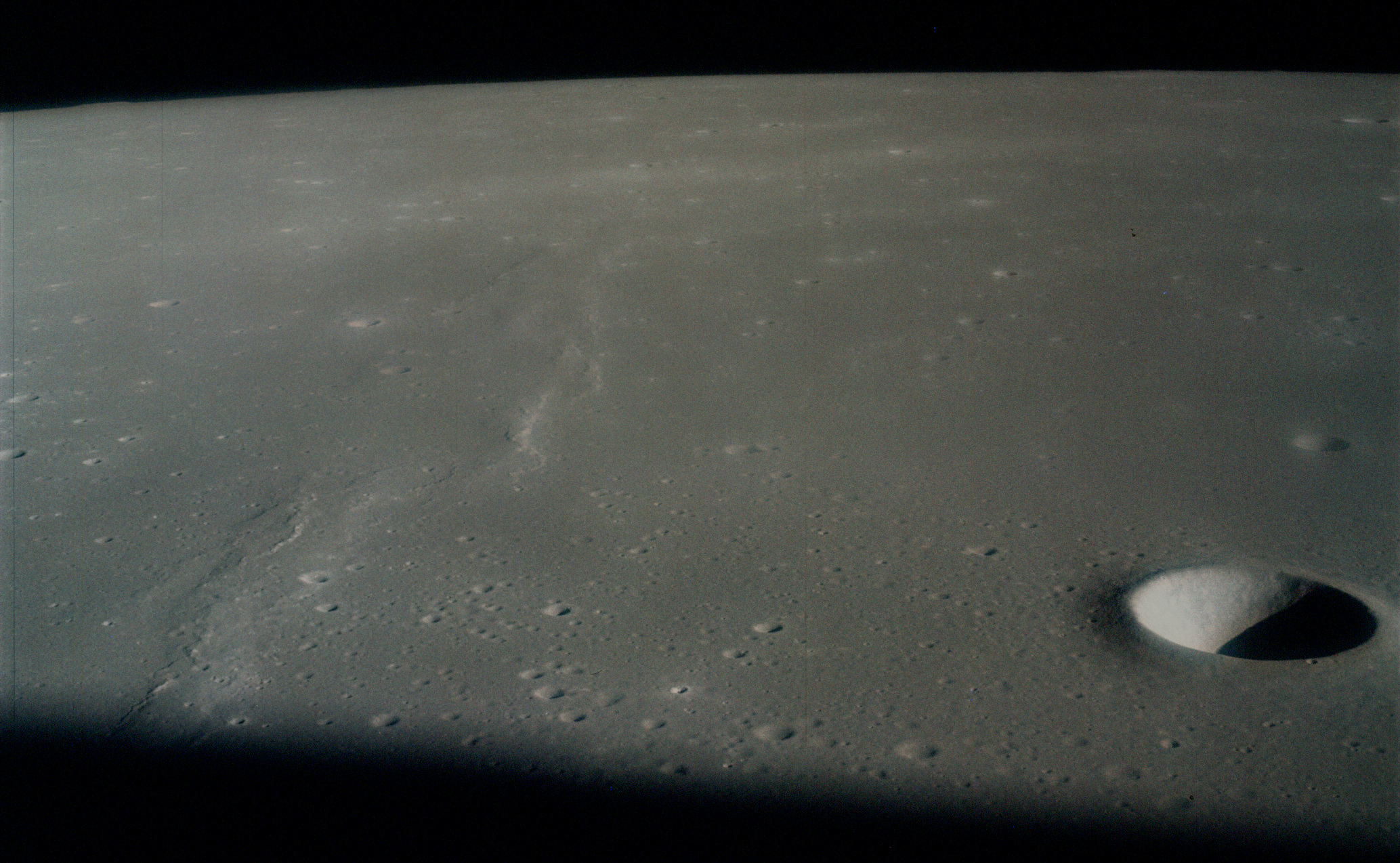 Oblique view of Dorsum Azara in Mare Serenitatis, on the moon. The large crater at right edge is Bessel D. Brightness and contrast adjusted from original.